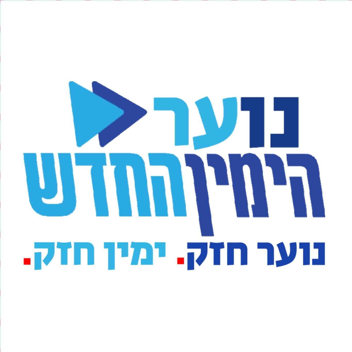 symbol of The New Right Youth-נוער הימין החדש